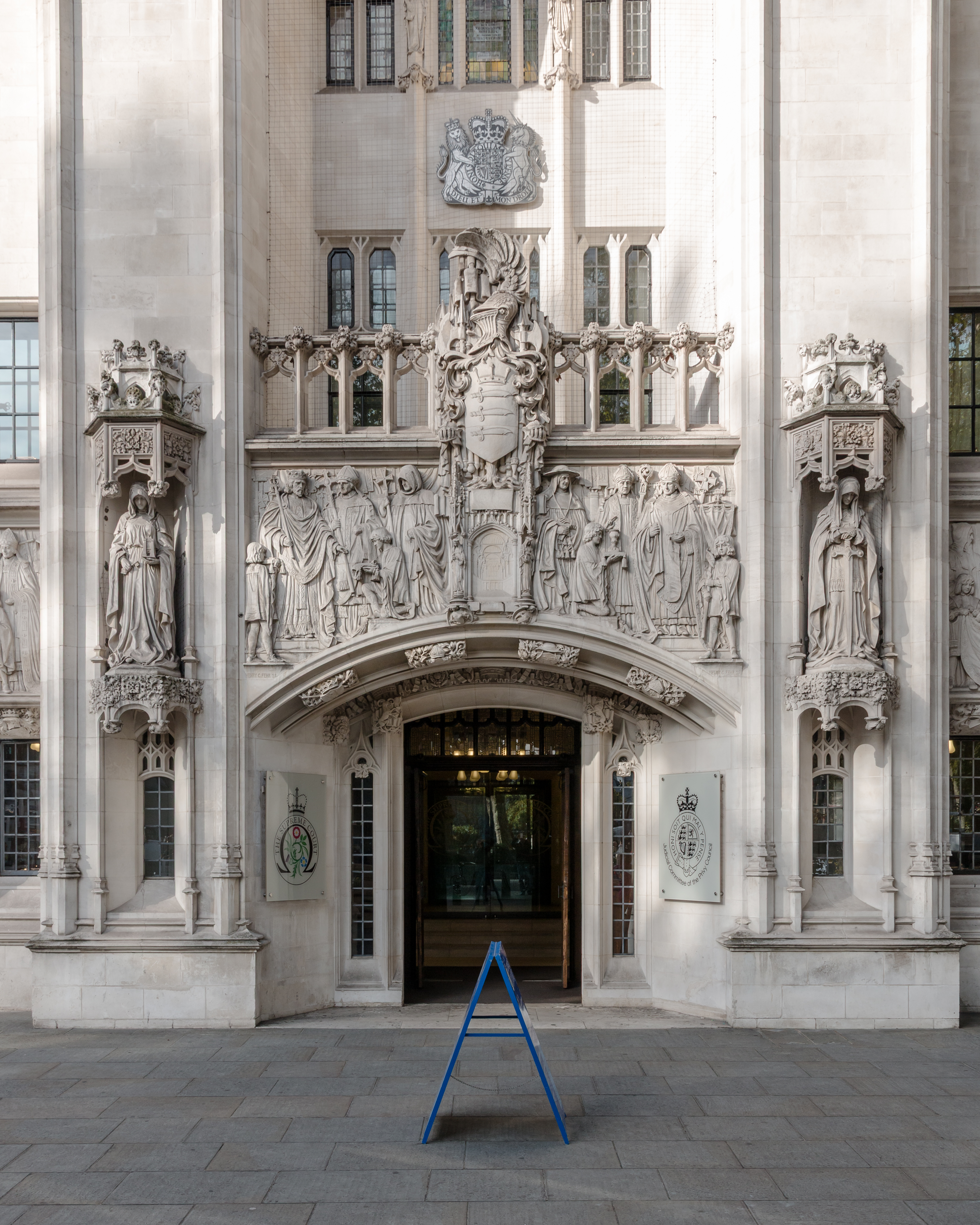 The Supreme Court, London, England, United Kingdom Sculpture TitleReliefArtistUnknown artistDateUnknown dateUnknown date